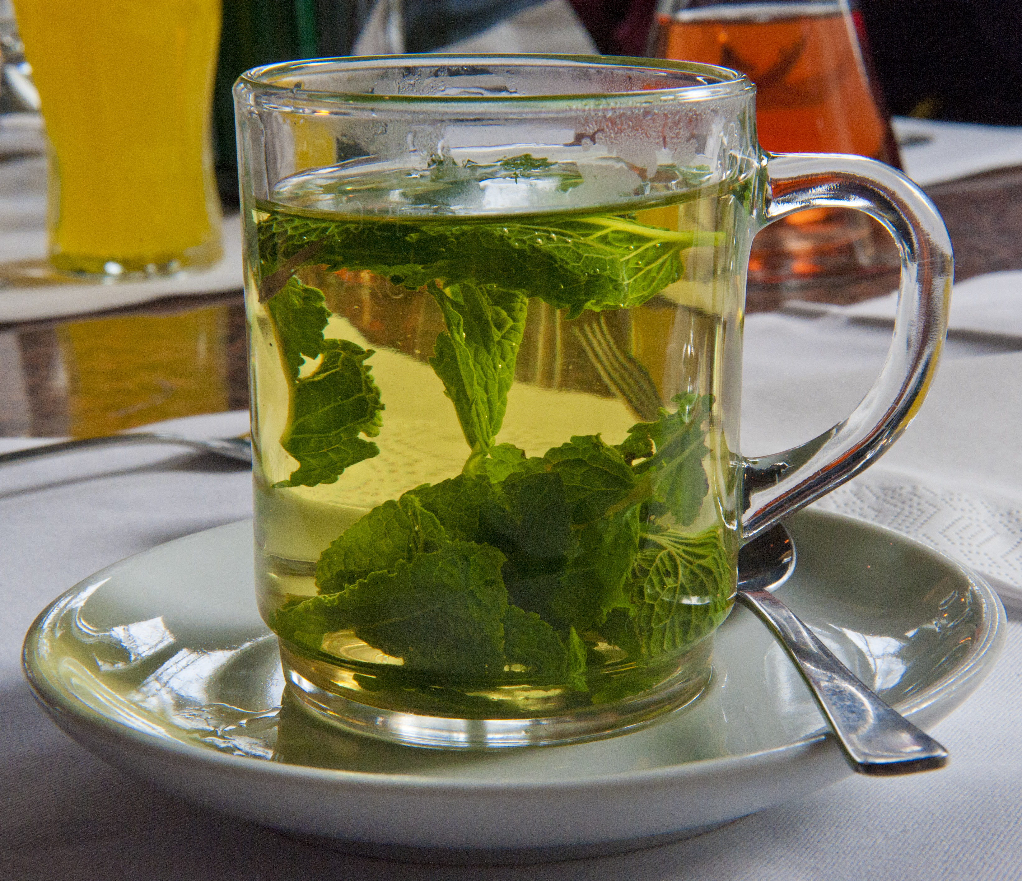 Peppermint tea with fresh leaves